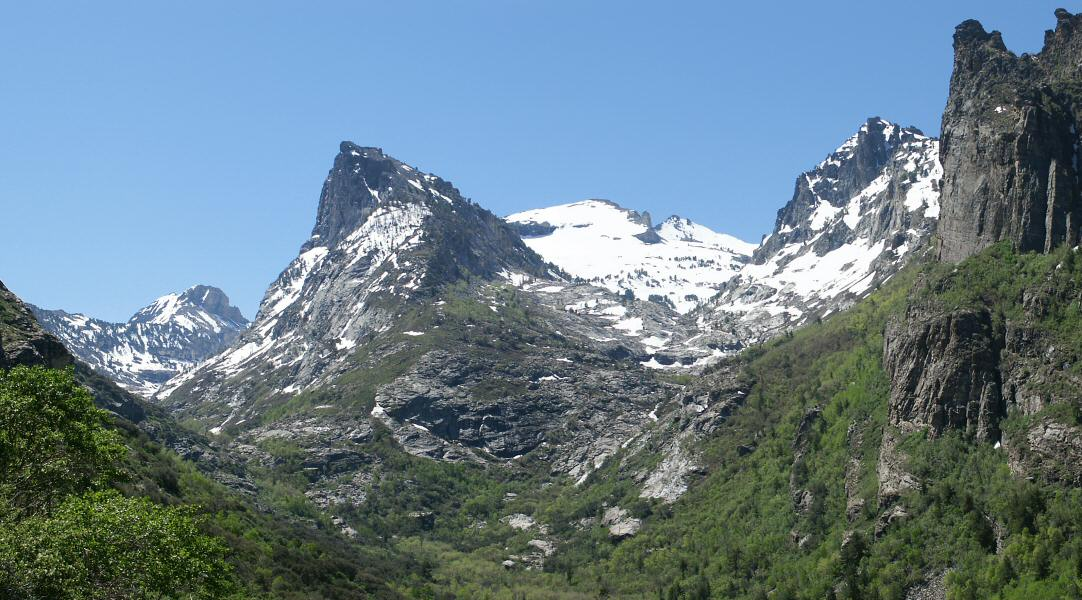 Seitz Canyon in the Ruby Mountains of Nevada, looking southeast from its lower section. Both branches for the canyon are visible, with Mt. Gilbert at upper left and the area near Ruby Dome visible at upper right.